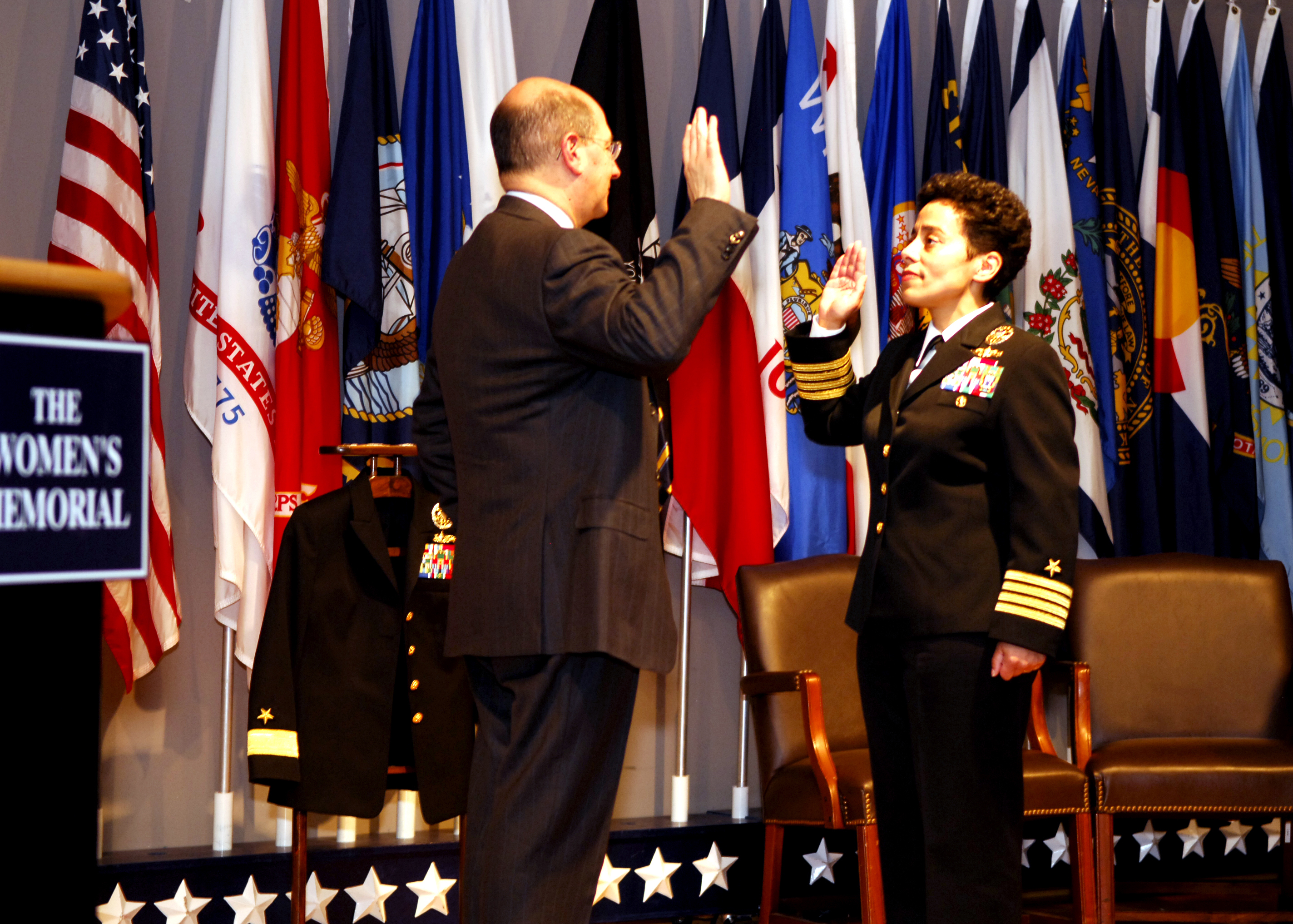 Arlington, Va. (April 20, 2007) - The Secretary of the Navy (SECNAV), the Honorable Dr. Donald C. Winter, administers the Officer's oath to Rear Adm. (Select) Michelle Howard during her frocking ceremony. Howard is the first female graduate of the U.S. Naval Academy to reach the rank of Rear Admiral. U.S. Navy photo by Chief Mass Communication Specialist Shawn P. Eklund (RELEASED)